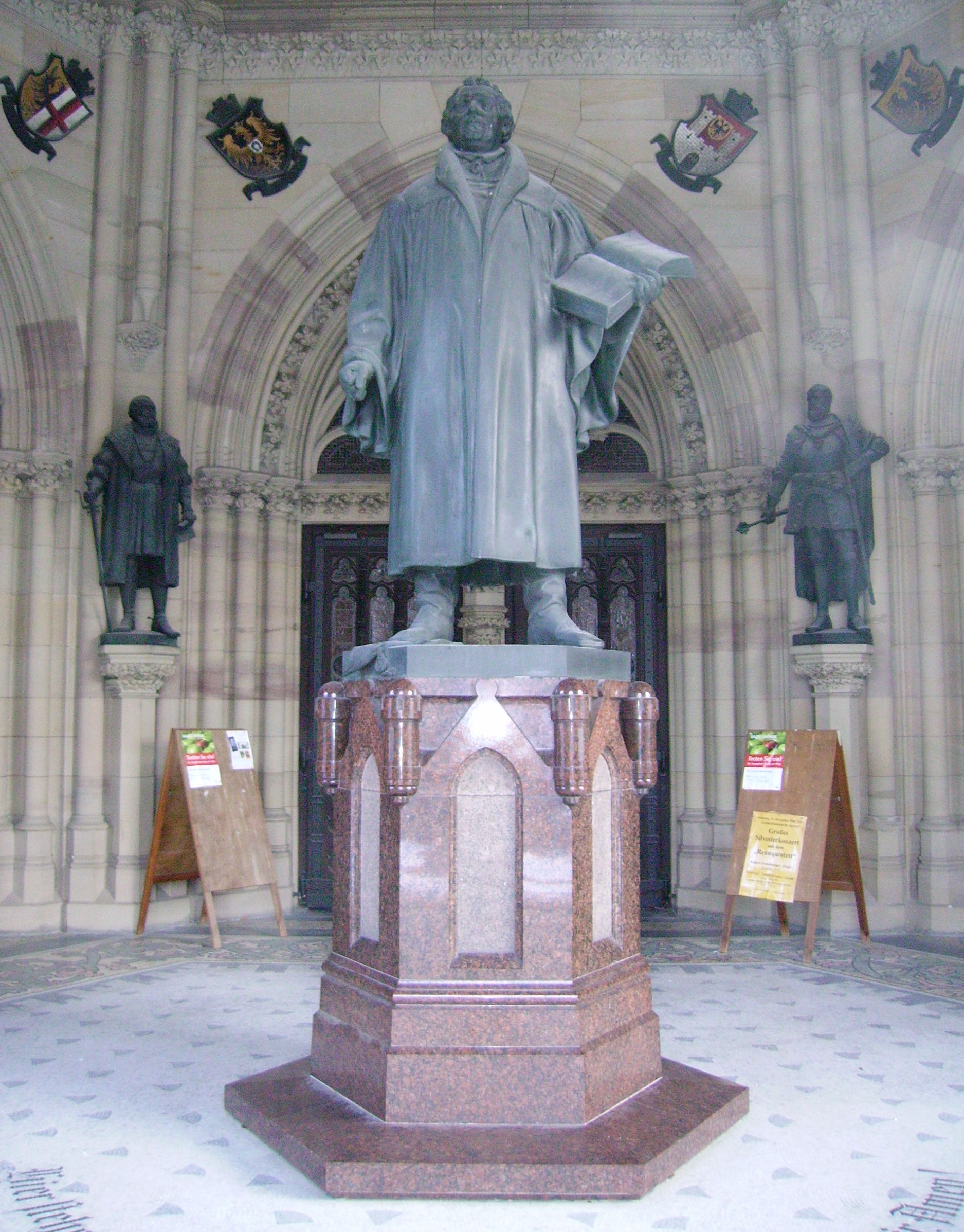 Gedächtniskirche (Memorial Church) in Speyer, Germany